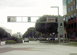 A traffic light gantry as photographed in in Cerritos. This is one of the special traffic lights seen near the Cerritos Towne Center.